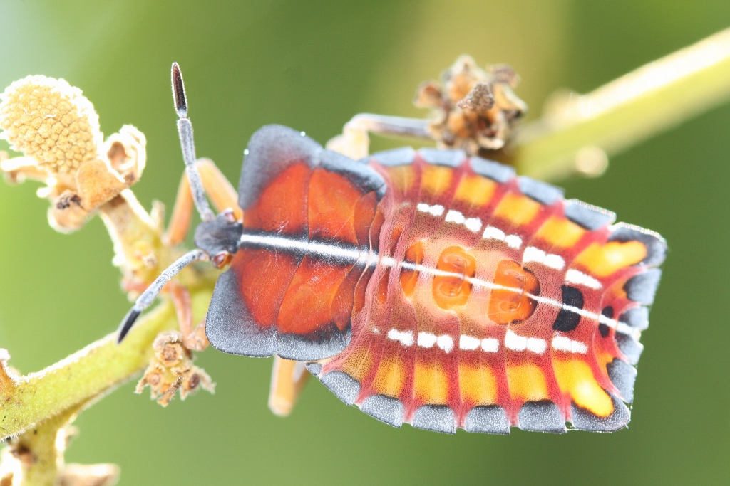 Taken near Ho Chung, Sai Kung, enjoying our longan tree. Thanks to cyppoon for the ID.